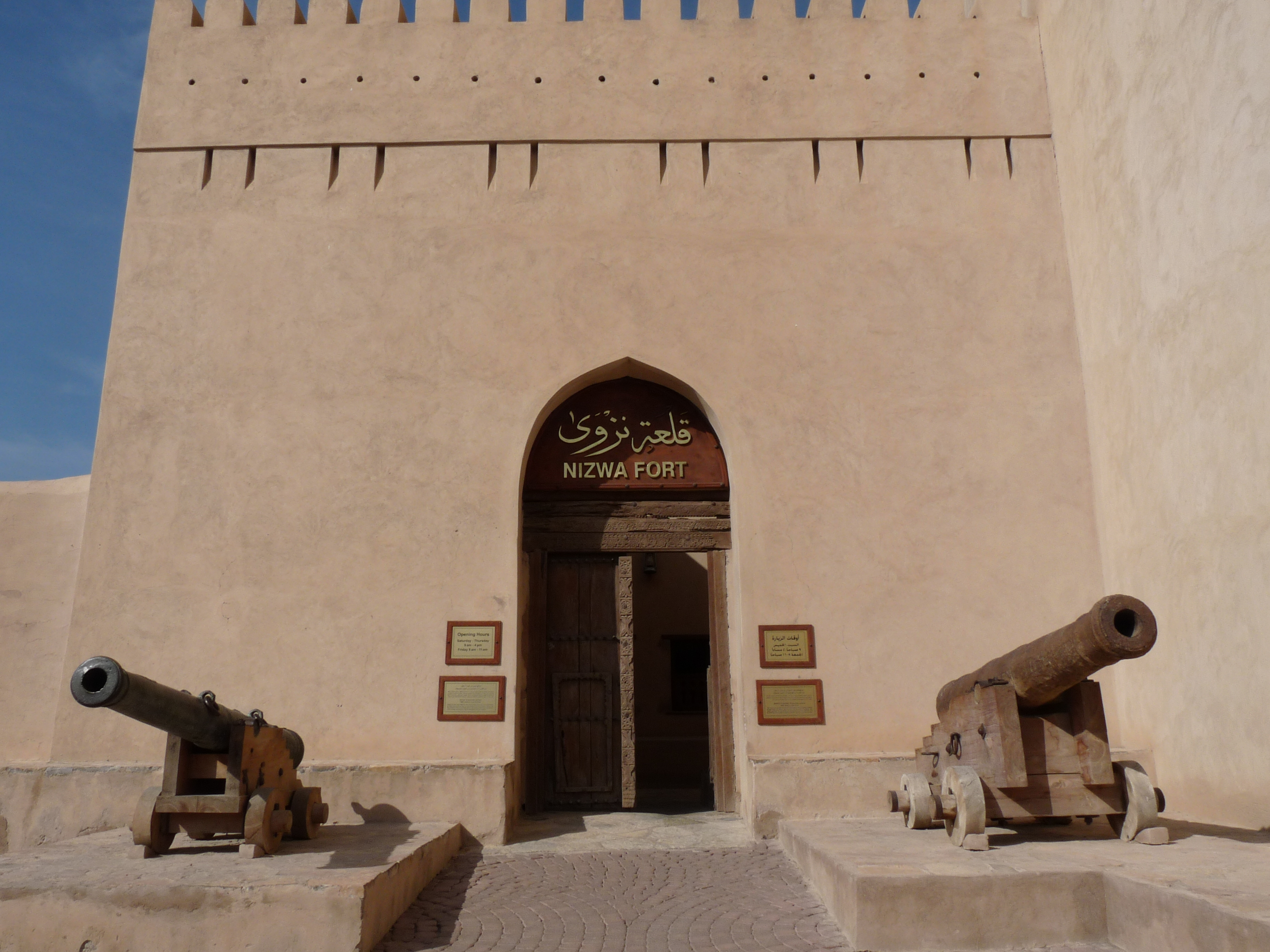 Nizwa Fort (Oman) : outer portal flanked by two cannons : one is a cast iron Swedish Finbanker dating from the 18th century mounted on a bracket carriage, the other is a mid-16th century bronze Portuguese cannon on a bed carriage